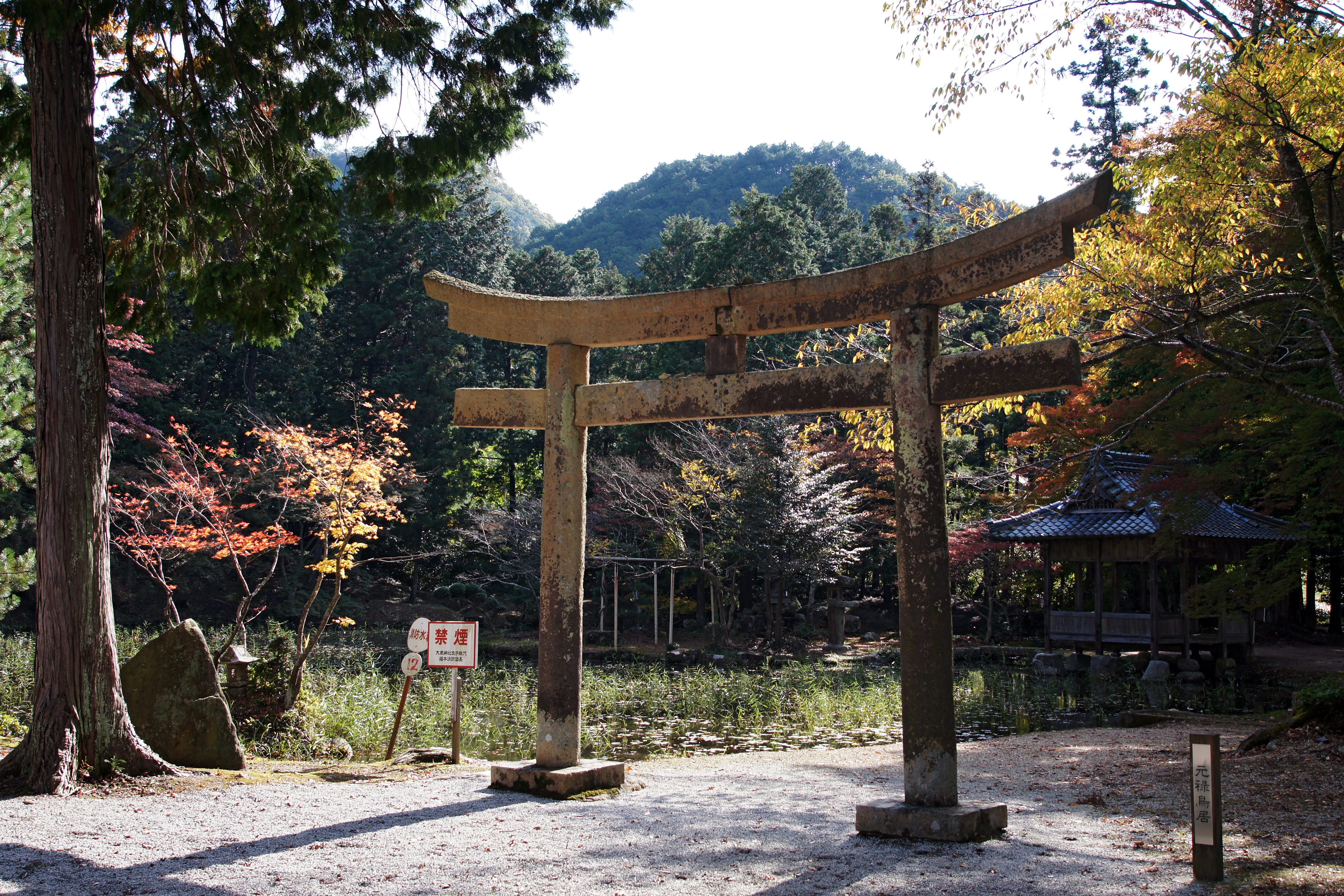 The ruins of Fukumoto Jinya are the present Otoshi-jinja, Kamikawa, Hyogo prefecture, Japan